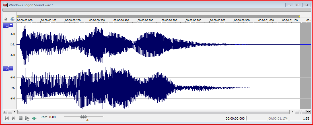 Waveform of an unstretched audio clip in Sony Sound Forge 9.0.